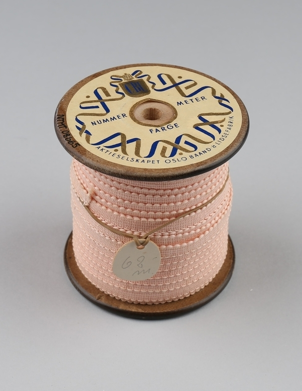 CBL (Cebelle) pink decorative ribbon produced at Oslo Baand & Lidsefabrikk in Oslo, Norway (object no. NTMT.08665, The Norwegian Knitting Industry Museum).